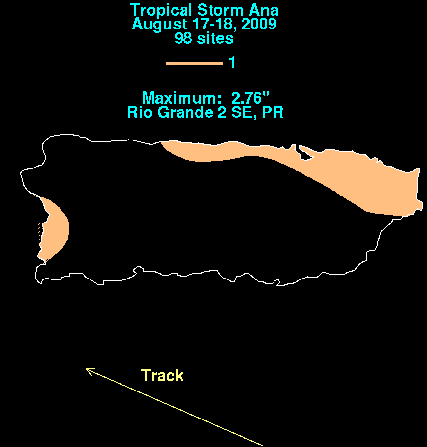 Storm total rainfall map of Tropical Storm Ana during August 2009.